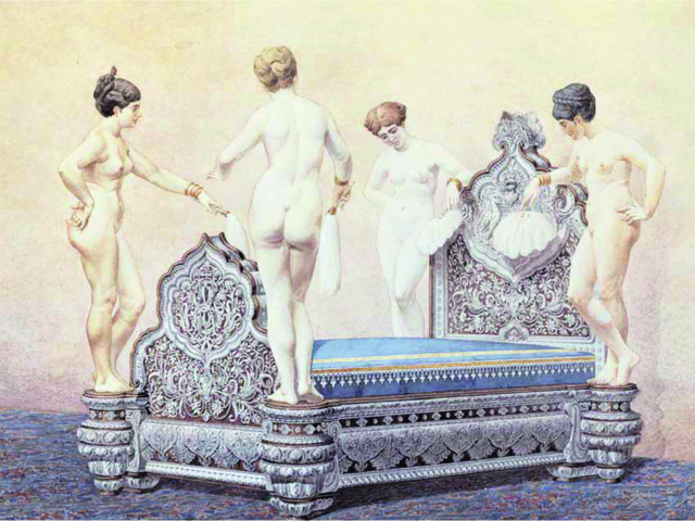 The bed of the Nawab of Bahawalpur, made by Christofle in 1882.